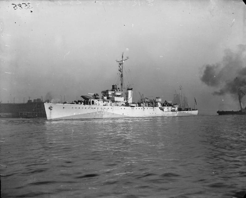 British Grimsby class sloop HMS Aberdeen (L97) underway on the Tyne.